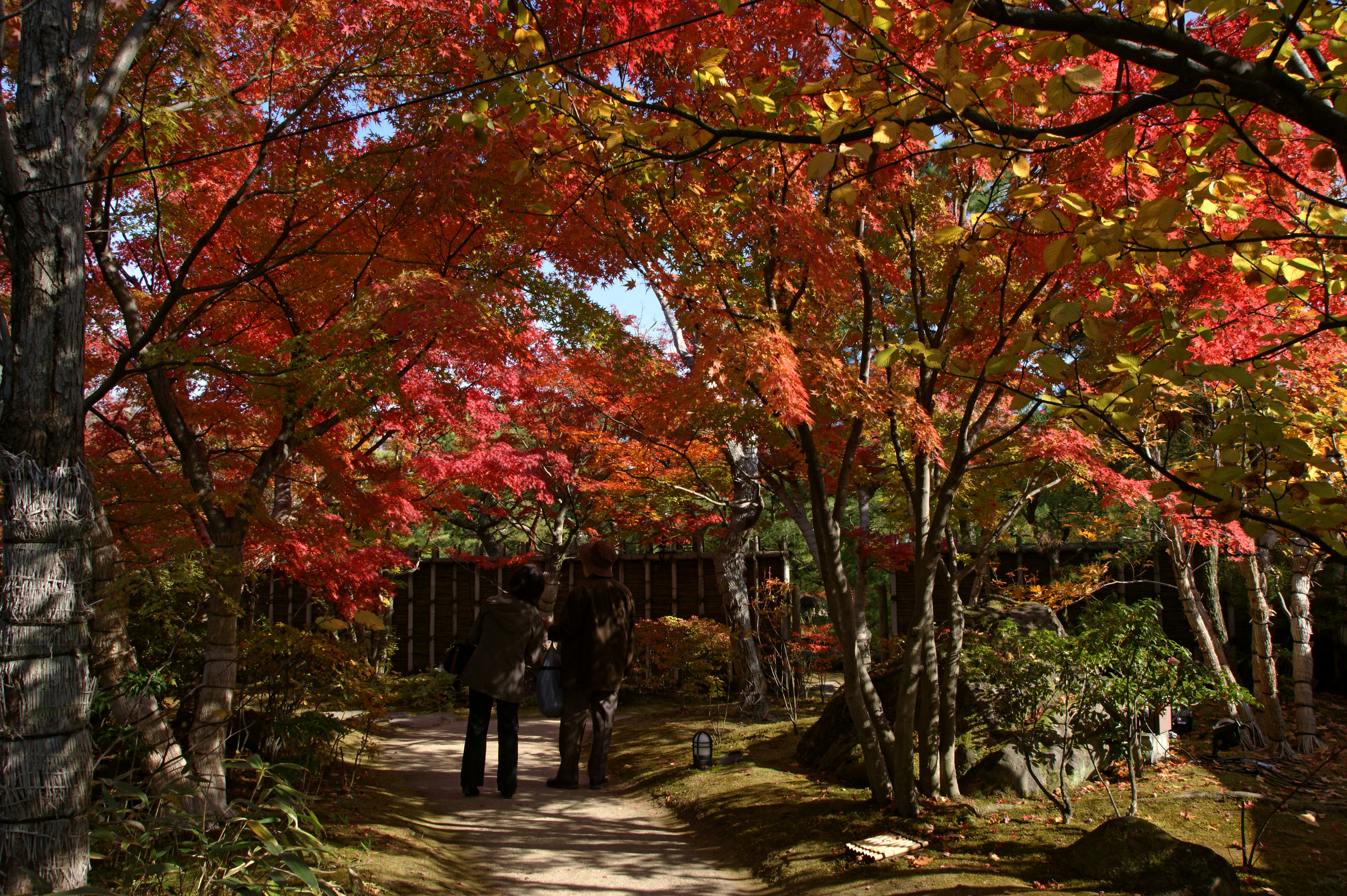 Koukoen, Himeji, Hyogo prefecture, Japan